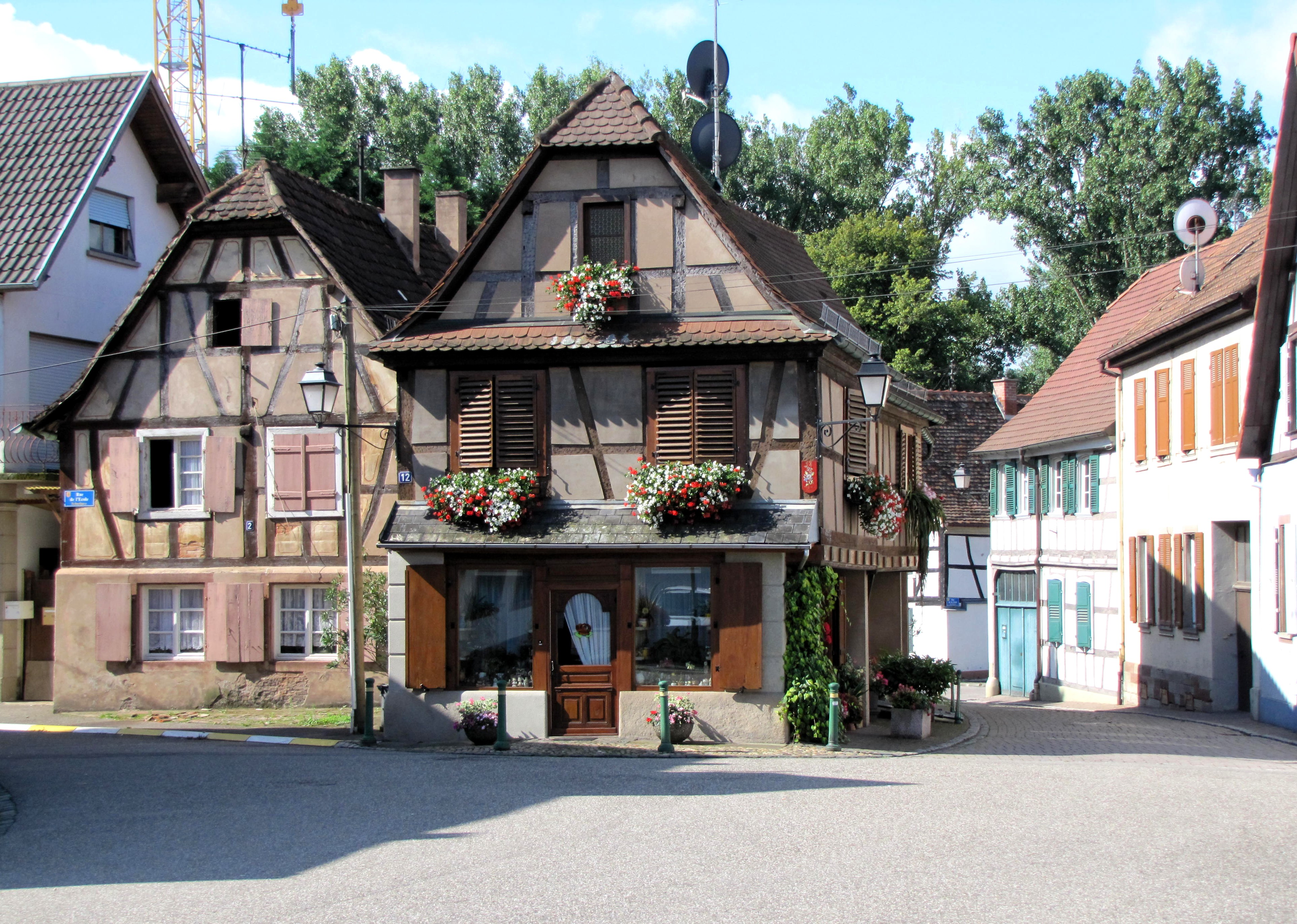 Alsace, Bas-Rhin, Brumath, Maison 12 place Geoffroy Velten. .